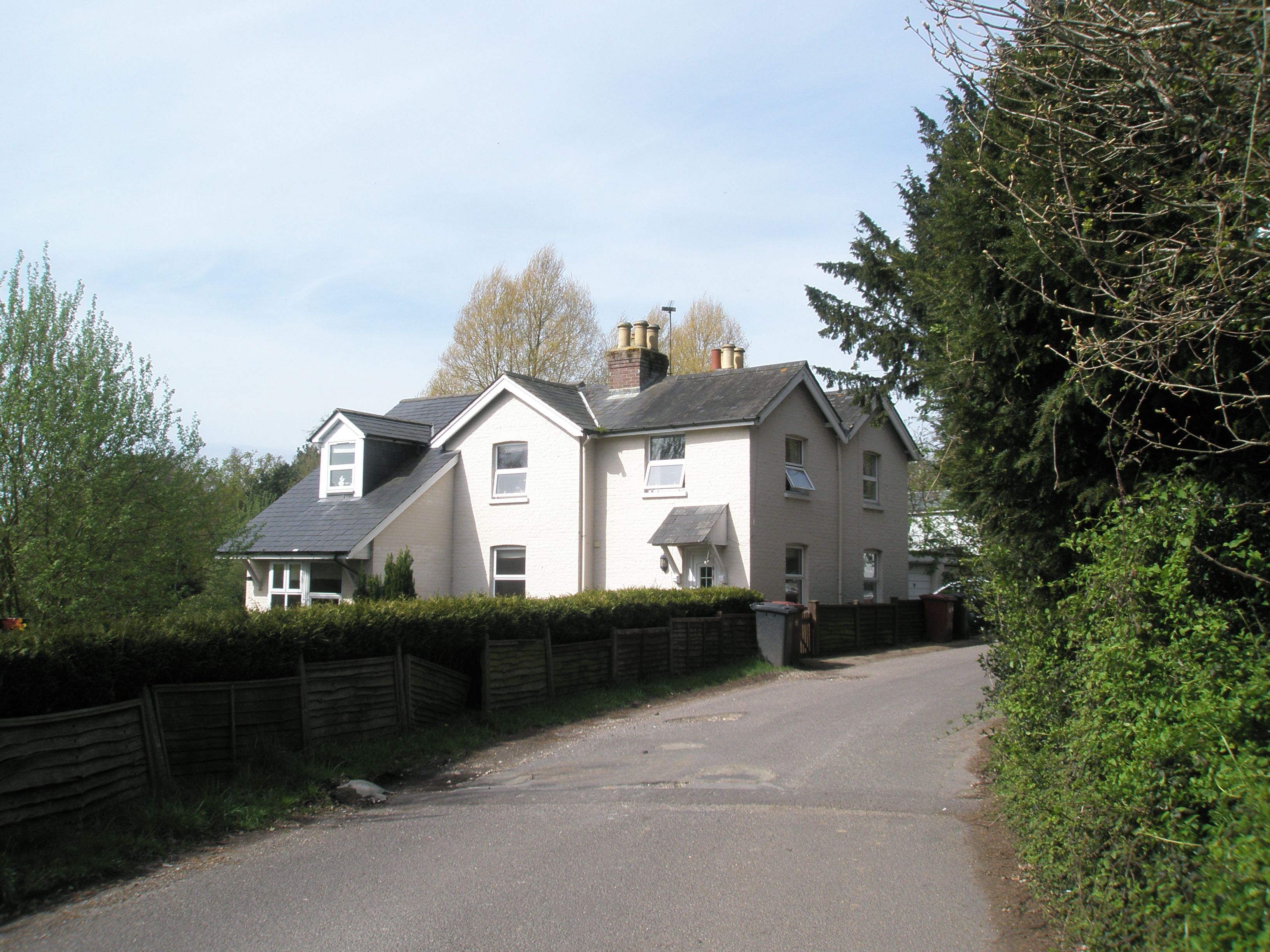 Station Road, Midhurst